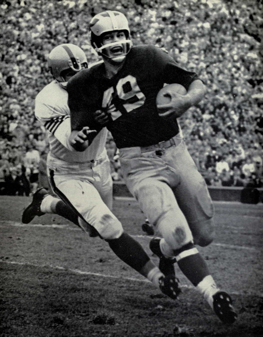 Photograph of Bob Ptacek running with the ball during Michigan's 1958 game against Illinois This work is in the public domain because it was published in the United States between 1923 and 1963 and although there may or may not have been a copyright notice, the copyright was not renewed. Unless its author has been dead for the required period, it is copyrighted in the countries or areas that do not apply the rule of the shorter term for US works, such as Canada (50 pma), Mainland China (50 pma, not Hong Kong or Macao), Germany (70 pma), Mexico (100 pma), Switzerland (70 pma), and other countries with individual treaties. See Commons:Hirtle chart for further explanation. This work is in the public domain because it was published in the United States between 1923 and 1977 and without a copyright notice. Unless its author has been dead for several years, it is copyrighted in jurisdictions that do not apply the rule of the shorter term for US works, such as Canada (50 p.m.a.), Mainland China (50 p.m.a., not Hong Kong or Macao), Germany (70 p.m.a.), Mexico (100 p.m.a.), Switzerland (70 p.m.a.), and other countries with individual treaties. See this page for further explanation.